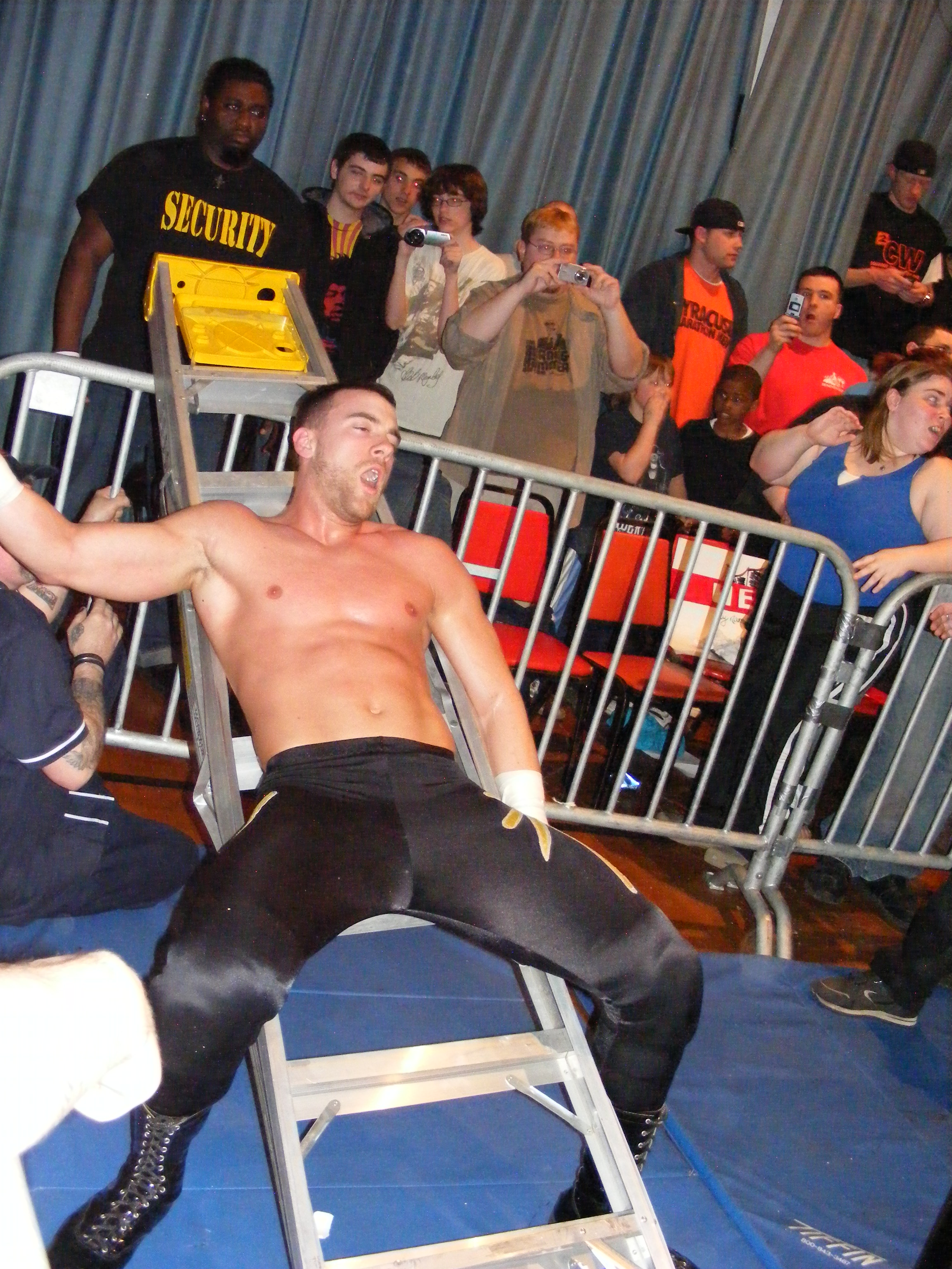 Professional wrestler "Hurricane" John Walters (real name John Stagikas) lying on a ladder during a match at a 2CW show on April 11, 2009